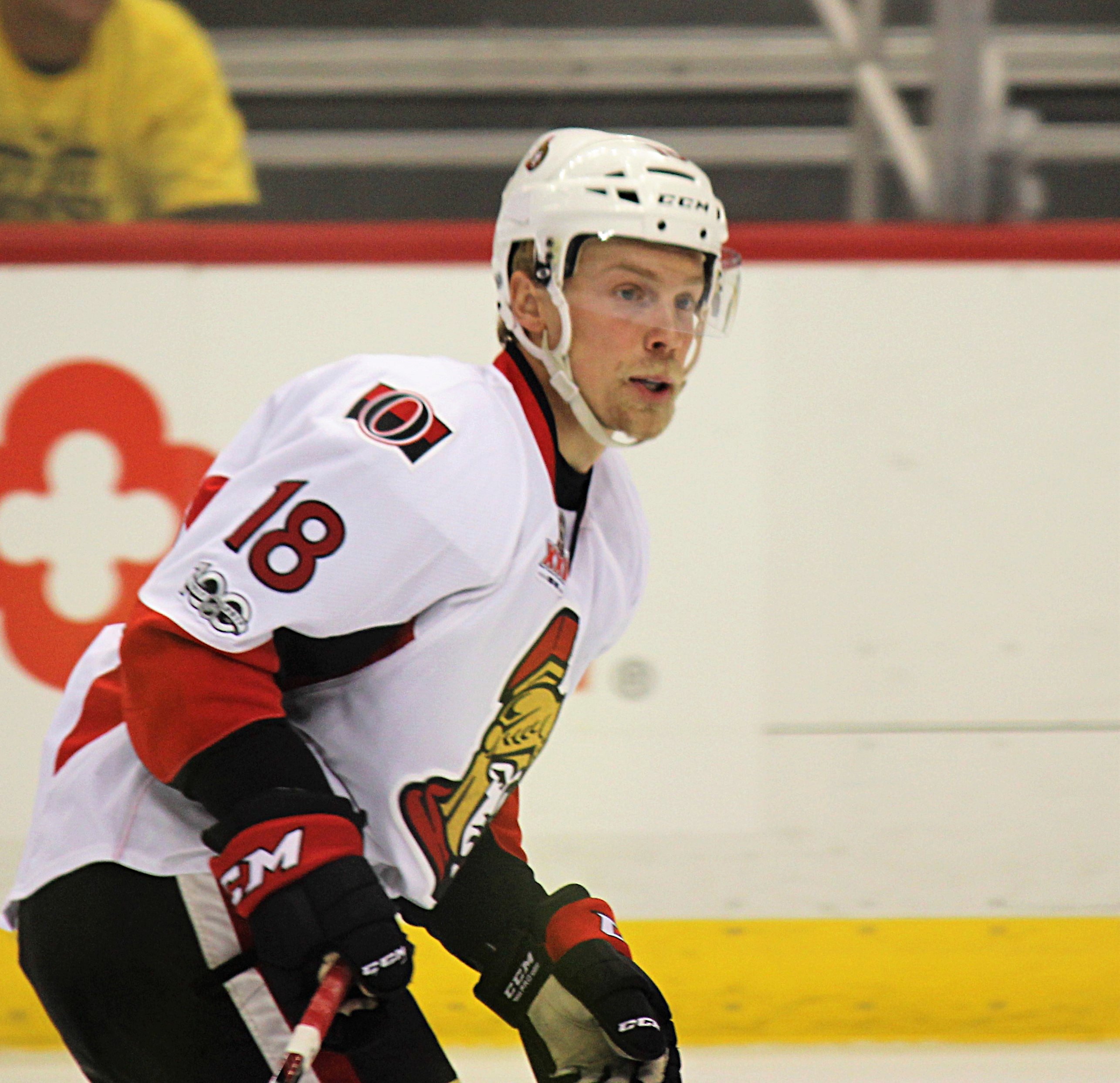 Ottawa Senators forward Ryan Dzingel during a playoff game against the Pittsburgh Penguins, May 25, 2017, at PPG Paints Arena in Pittsburgh, PA.